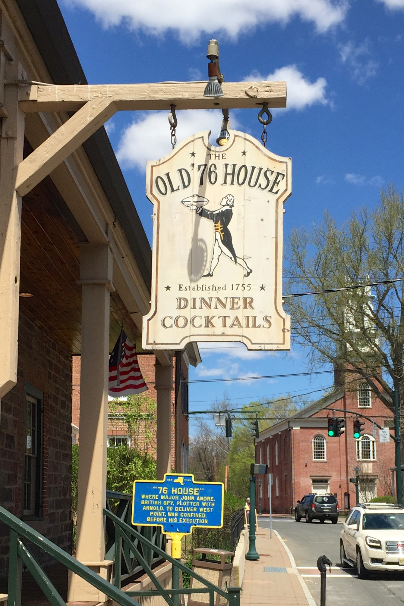 Information signs at The Old 76 House in Tappan, New York.